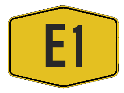 Highway shield for Malaysian Expressway E1